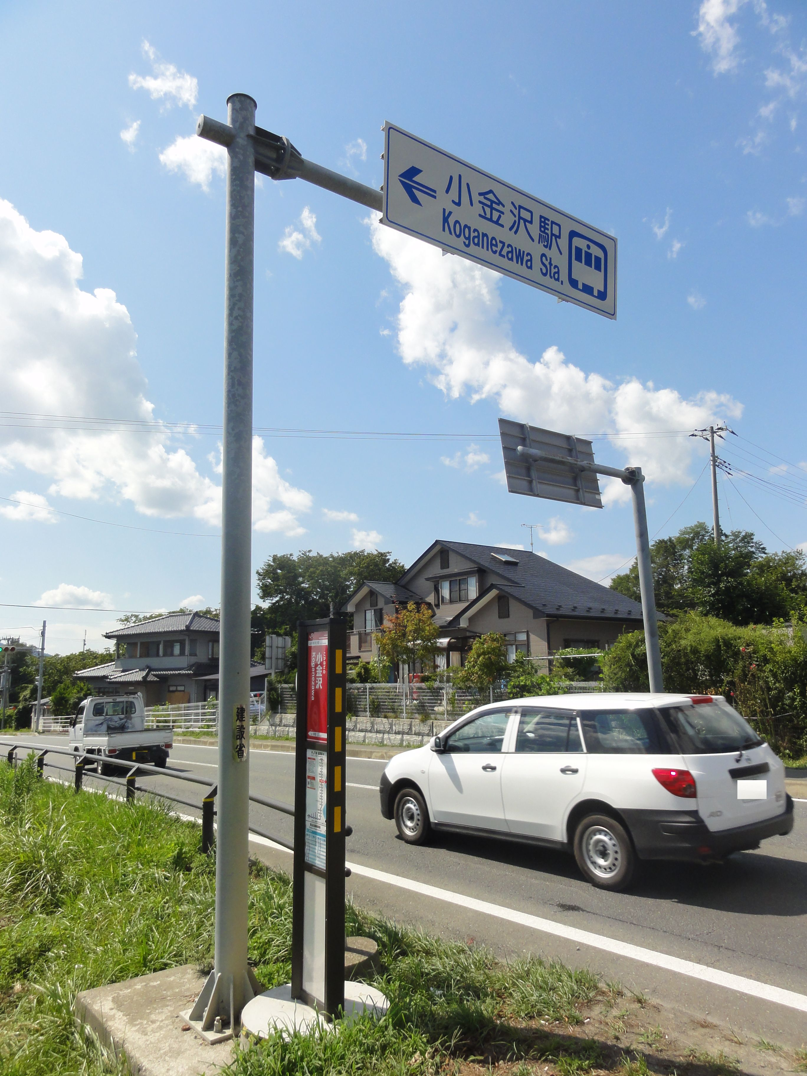 Koganezawa Station bus rapid transit bus stop